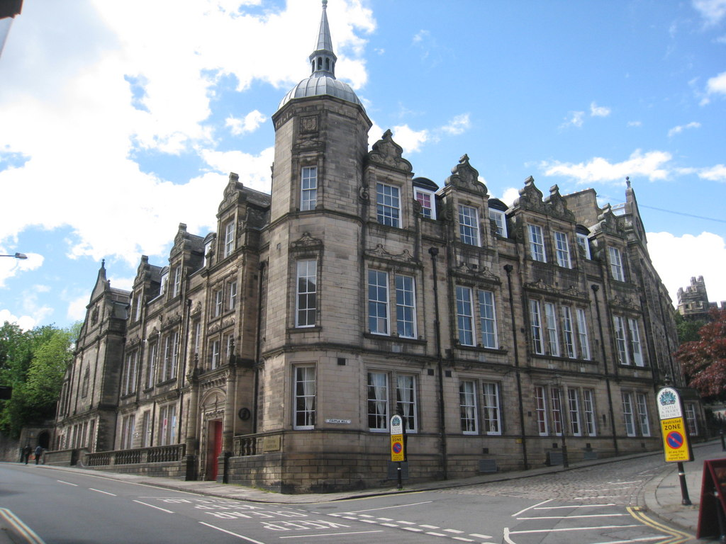 Photograph of the Storey Institute, Lancaster